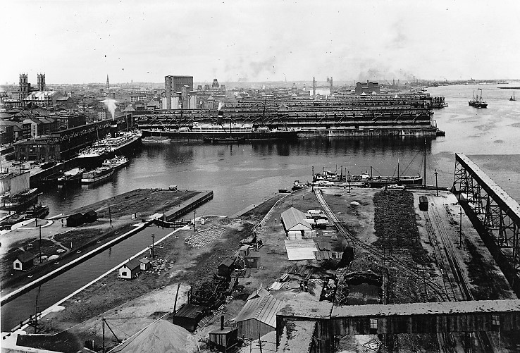 Harbour from the elevator Railway Grand Trunk, Montreal, QC, 1906